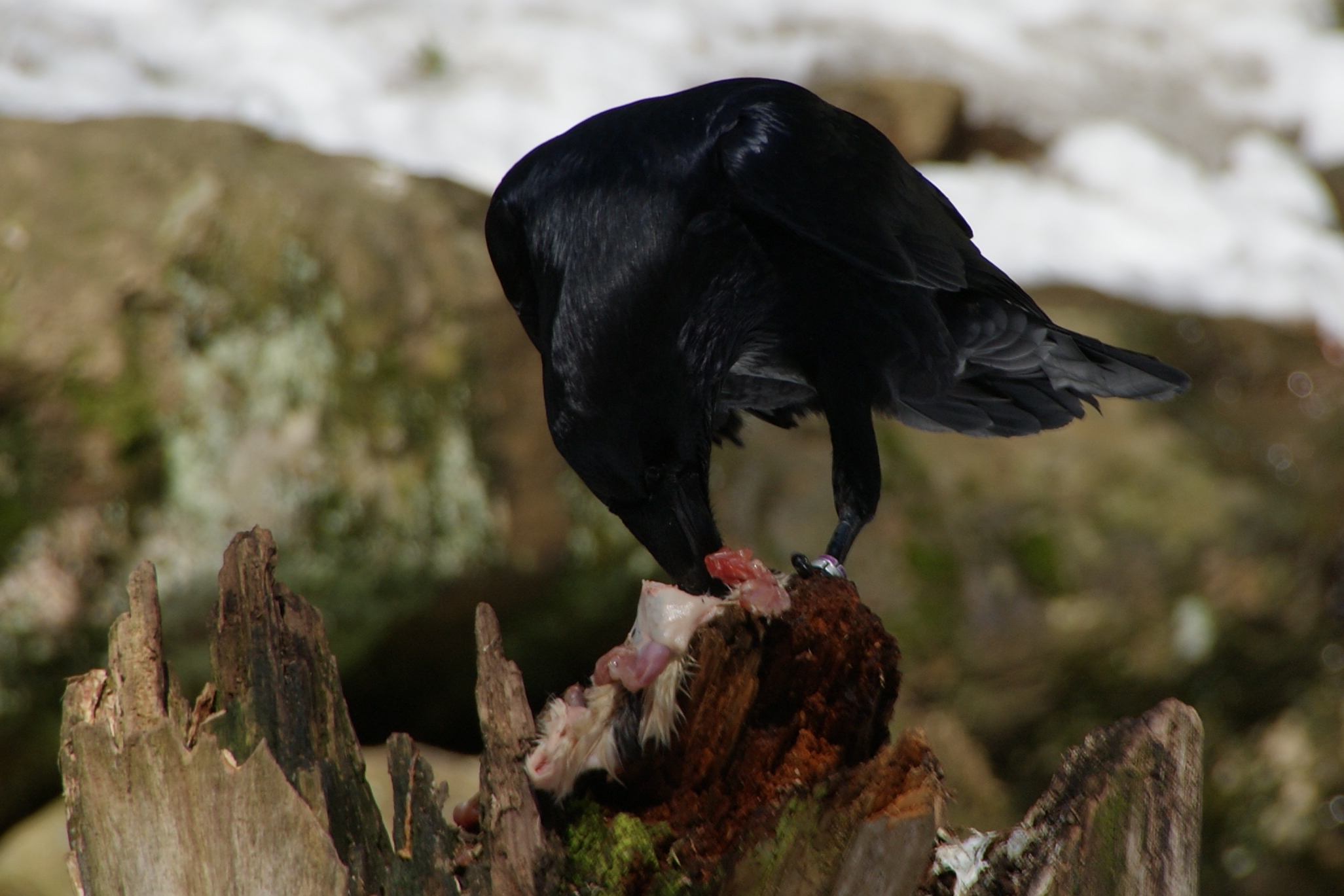 Common Raven in an open-air enclosure at the National Park Bavarian Forest